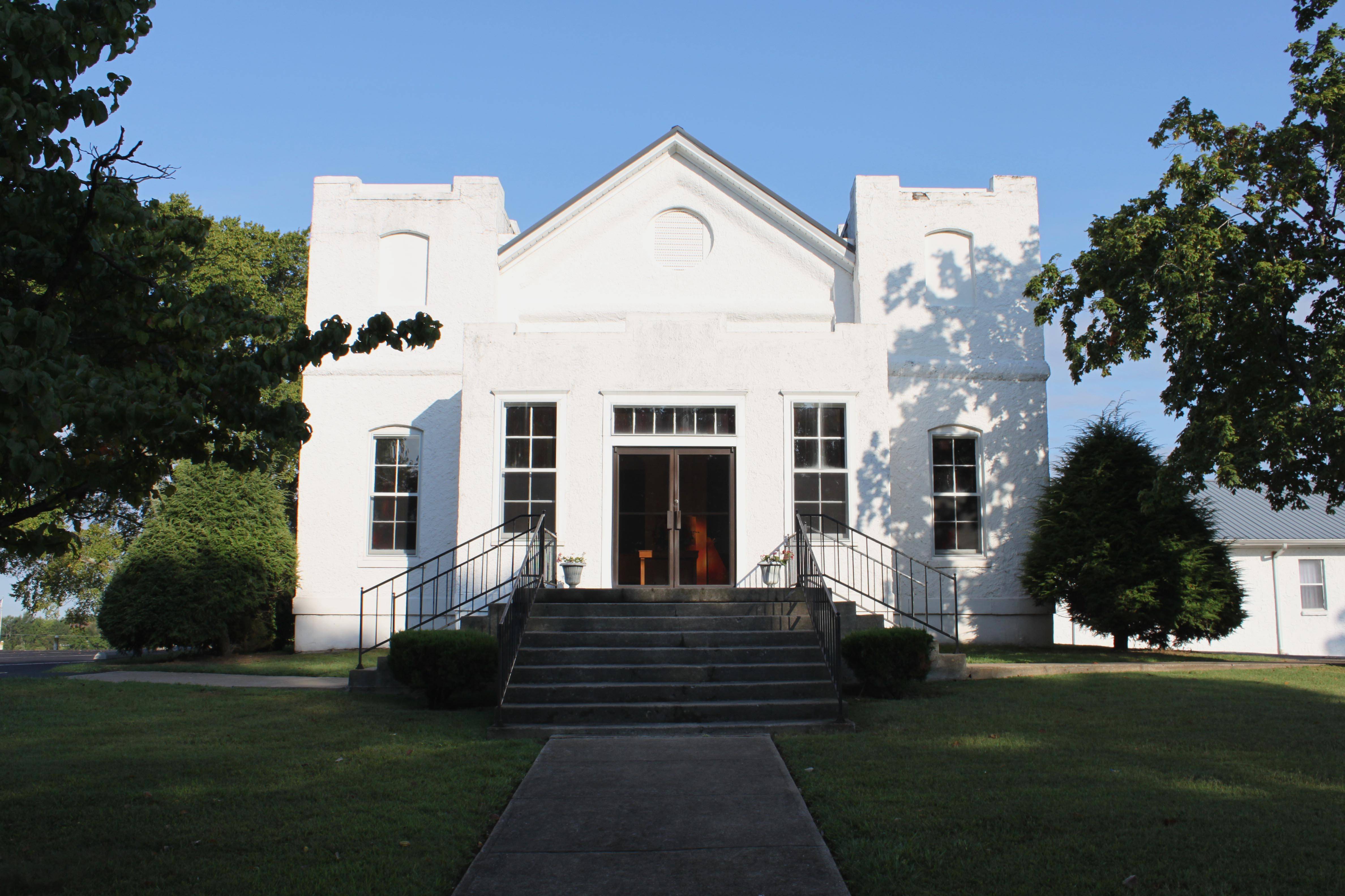 Red River Baptist Church, Adams, Tennessee